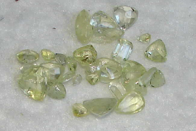 Anglesite cut from Minas Gerais, Brazil. Gem cutting by Afonso Marques.